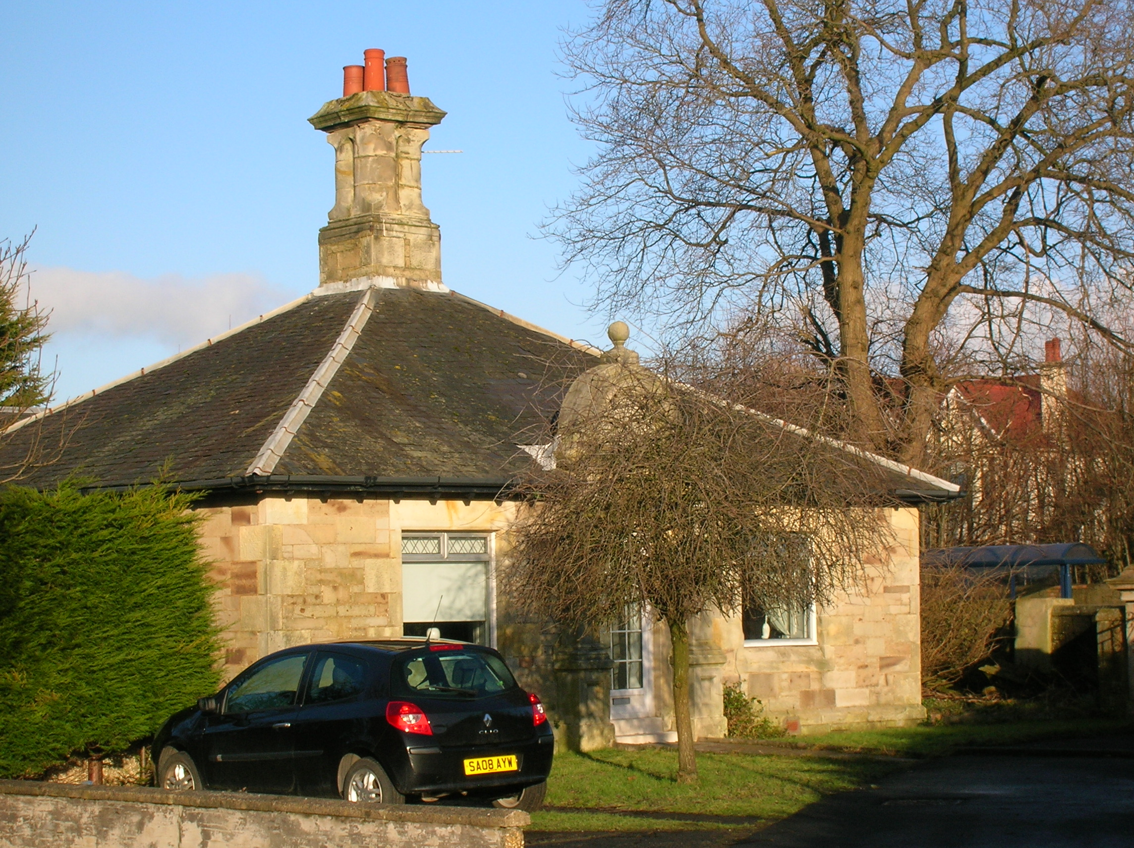 Williamfield Lodge, Irvine, North Ayrshire, Scotland